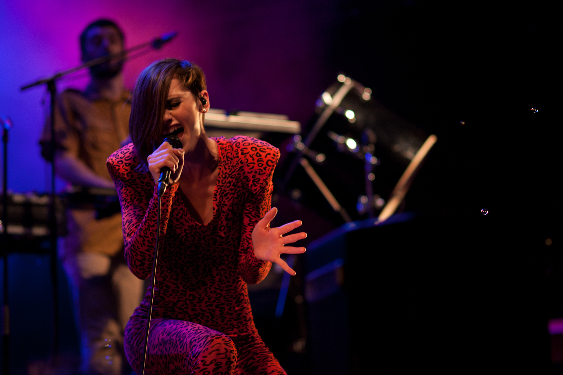 Follow me on facebook Twitter : @didyPhotography All the photographies I've made are now under CC0 (Creative Commons Zero) CC0 - learn more To the extent possible under law, Eddy BERTHIER has waived all copyright and related or neighboring rights to Yelle @ BSF 2011. This work is published from: France.